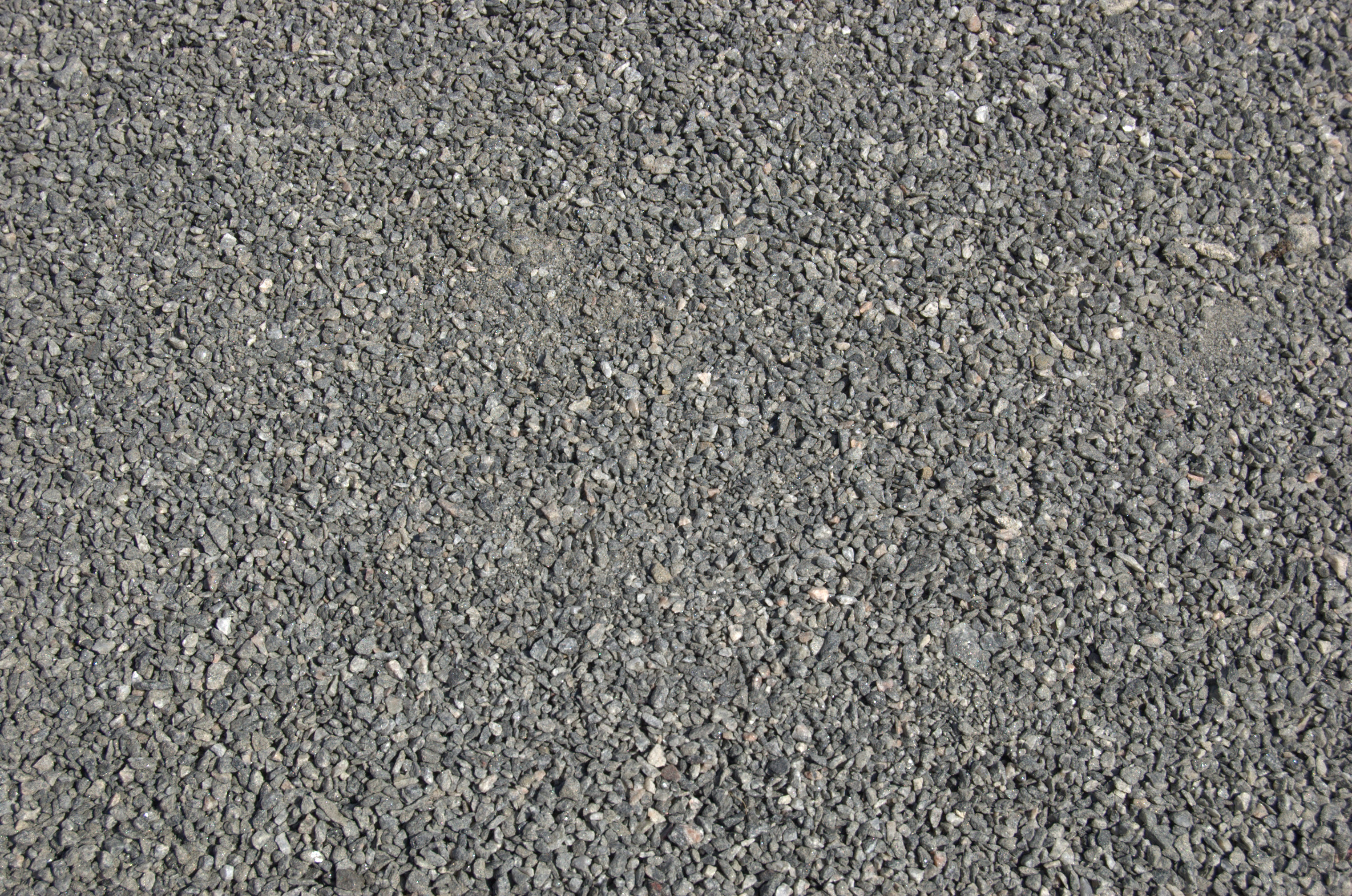 Gravel - Consists of small stones-rocks.